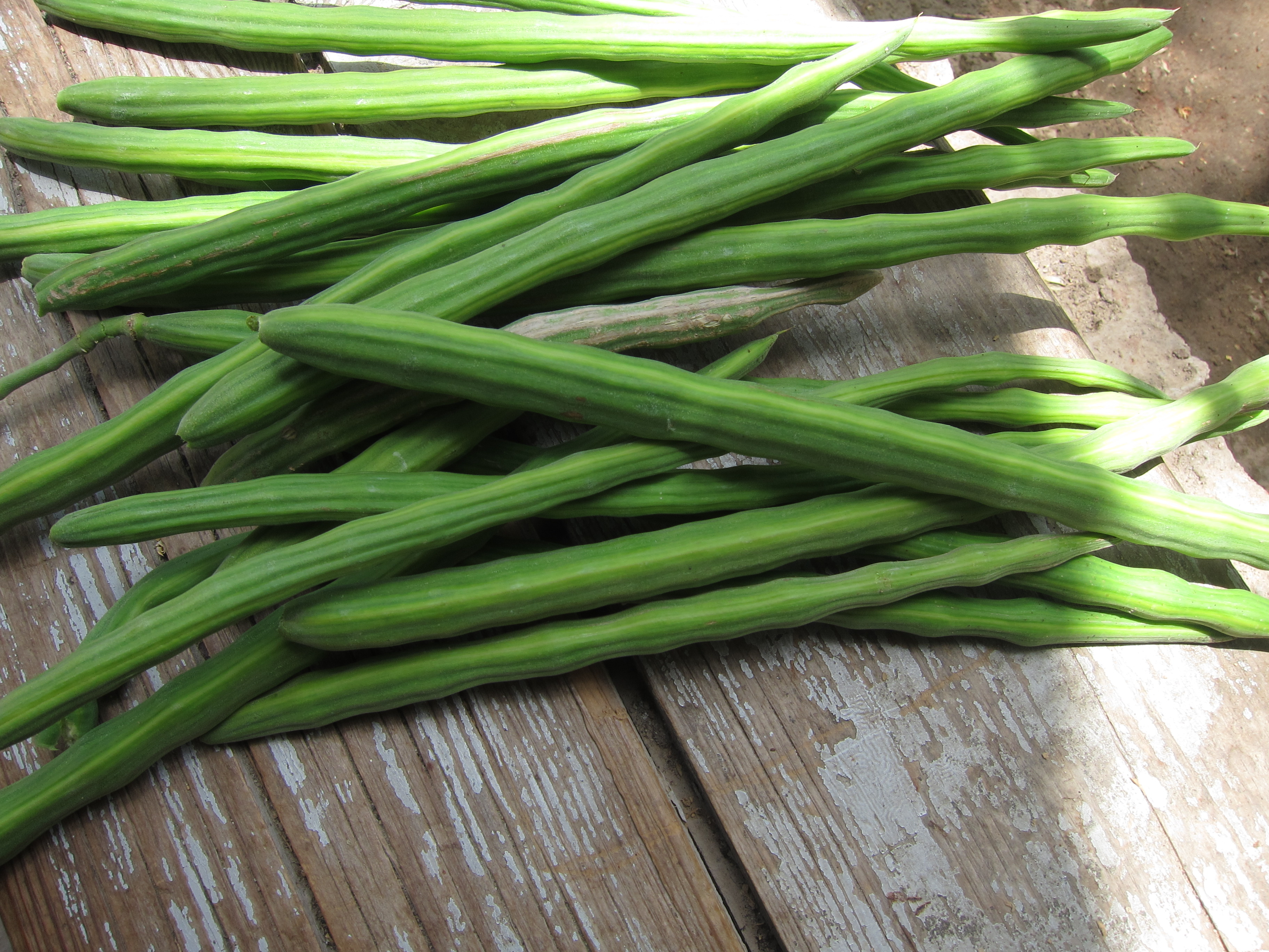 Moringa